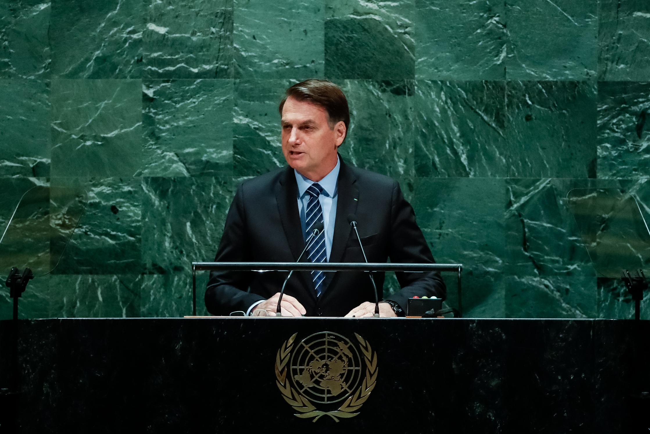 (Nova York - EUA, 24/09/2018) Presidente da República, Jair Bolsonaro, discursa durante a abertura do Debate Geral da 74ª Sessão da Assembleia Geral das Nações Unidas (AGNU). Foto: Alan Santos/PR